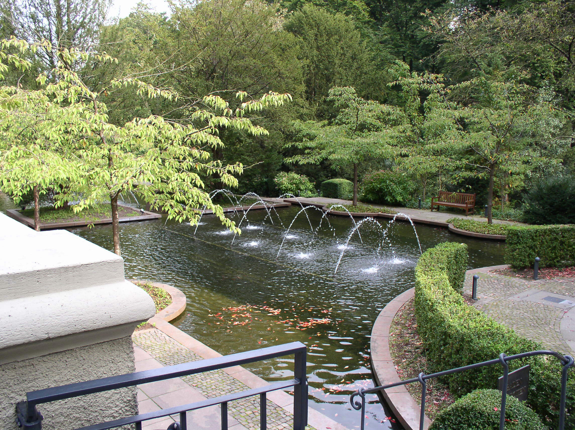 Park of Landsberg Castle in Ratingen